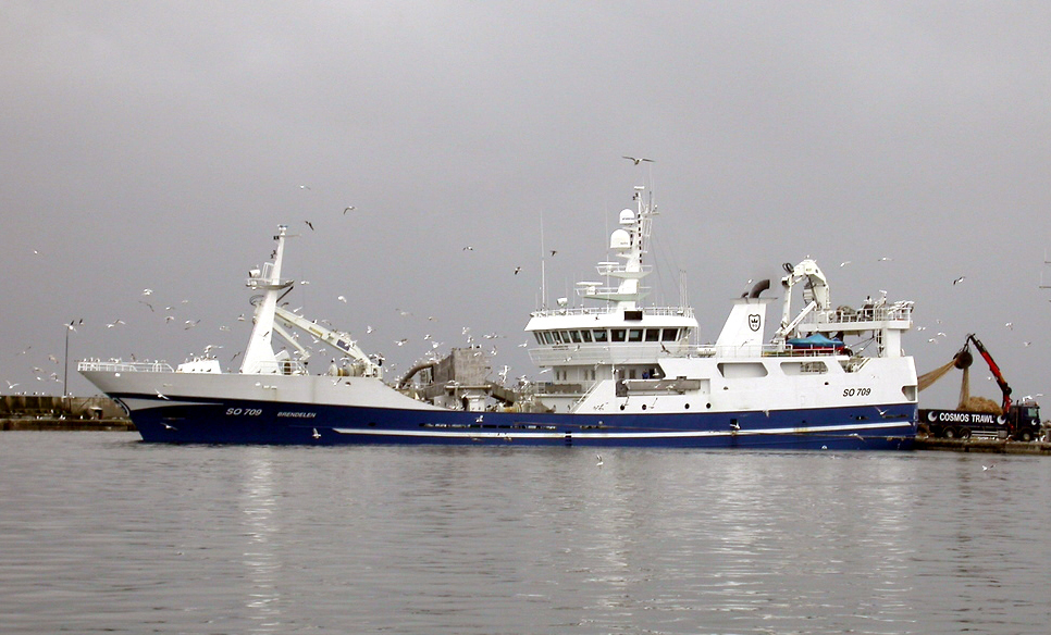 Brendelen SO 709. Modern trawler, Skagen harbour, Denmark